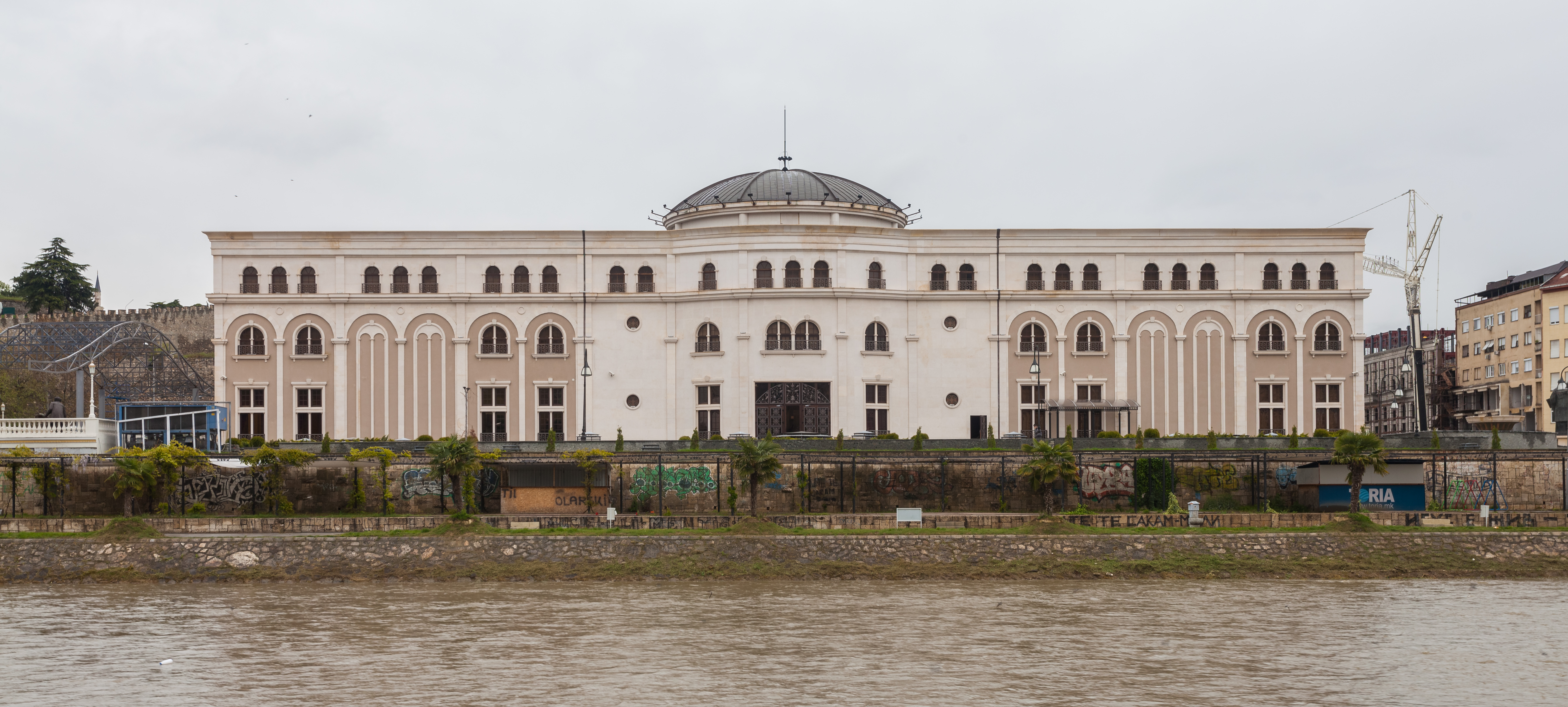 Museum of the Macedonian Struggle, Skopje, Republic of Macedonia